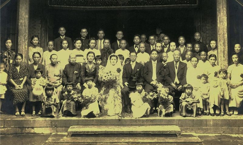 王育霖於二二八事件時遭中國政權殺害 Ông Io̍k-lîm was murdered d by brutal regime from China in 1947